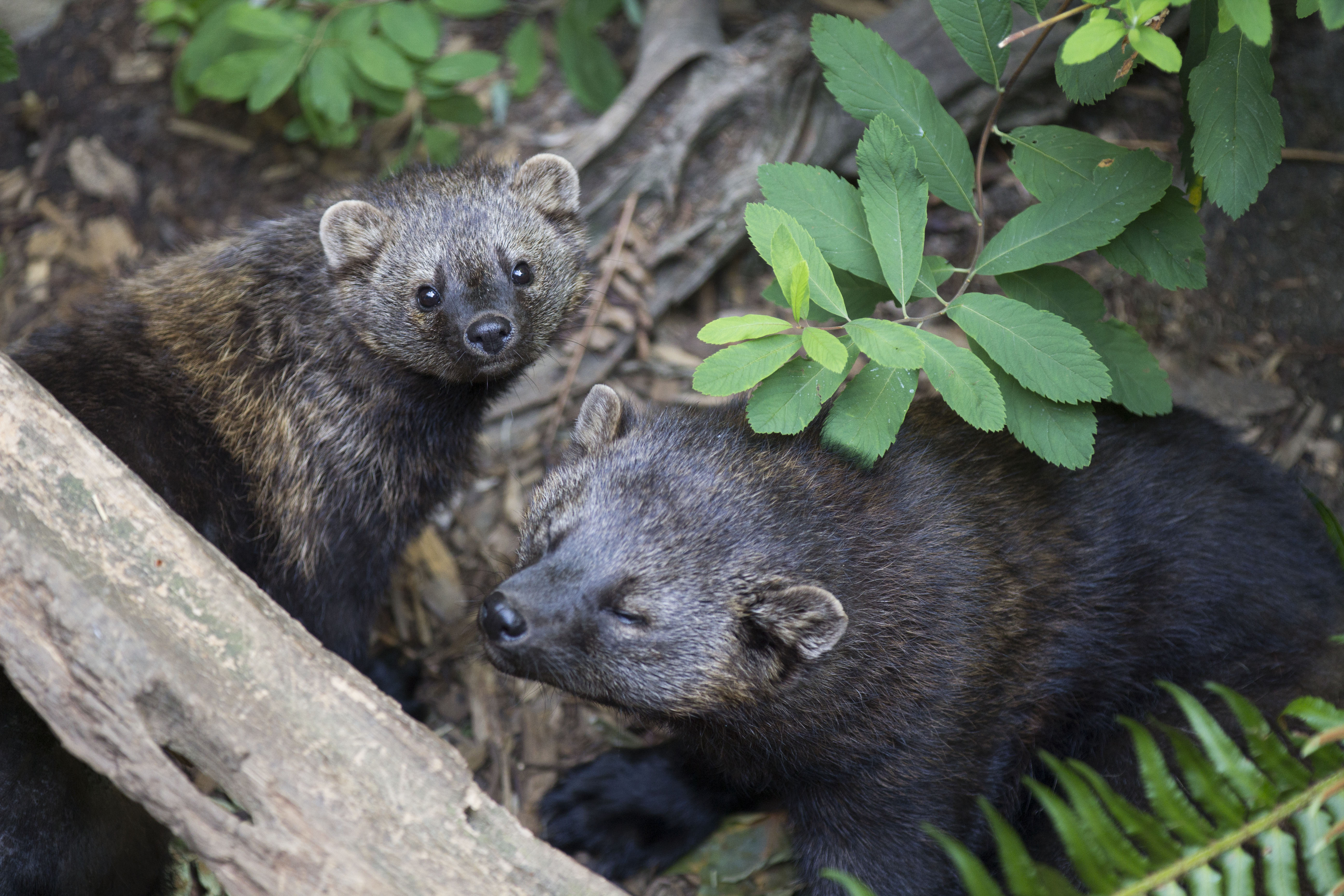 NPS photo by Emily Brouwer